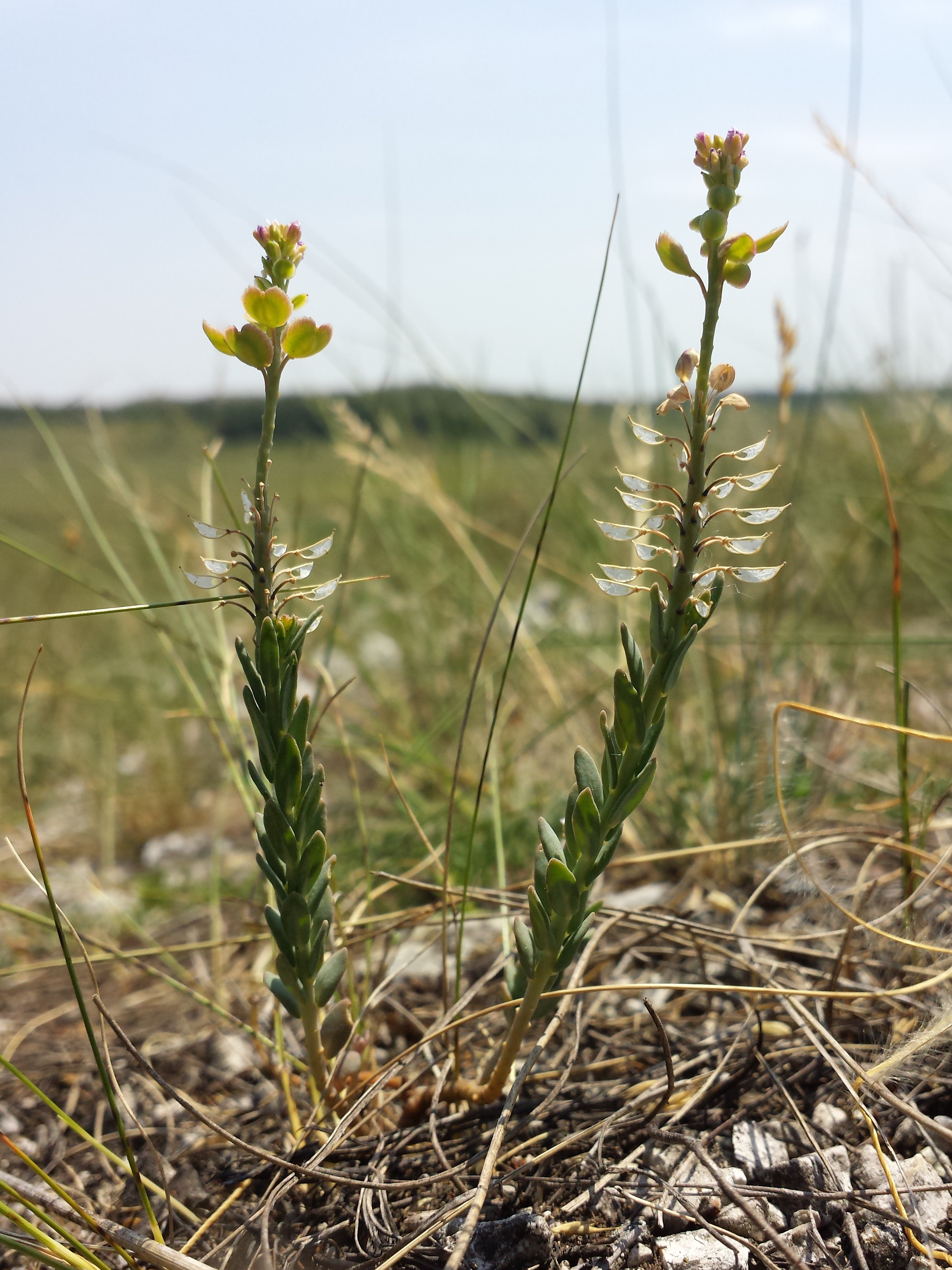 Habitus Taxonym: Aethionema saxatile ss Fischer et al. EfÖLS 2008 ISBN 978-3-85474-187-9; det. Gergely Király 2015-06-07 Location: Dolomite hills to the south of Öskü, Veszprém County, Hungary - ca. 200 m a.s.l. Habitat: dolomite rocks